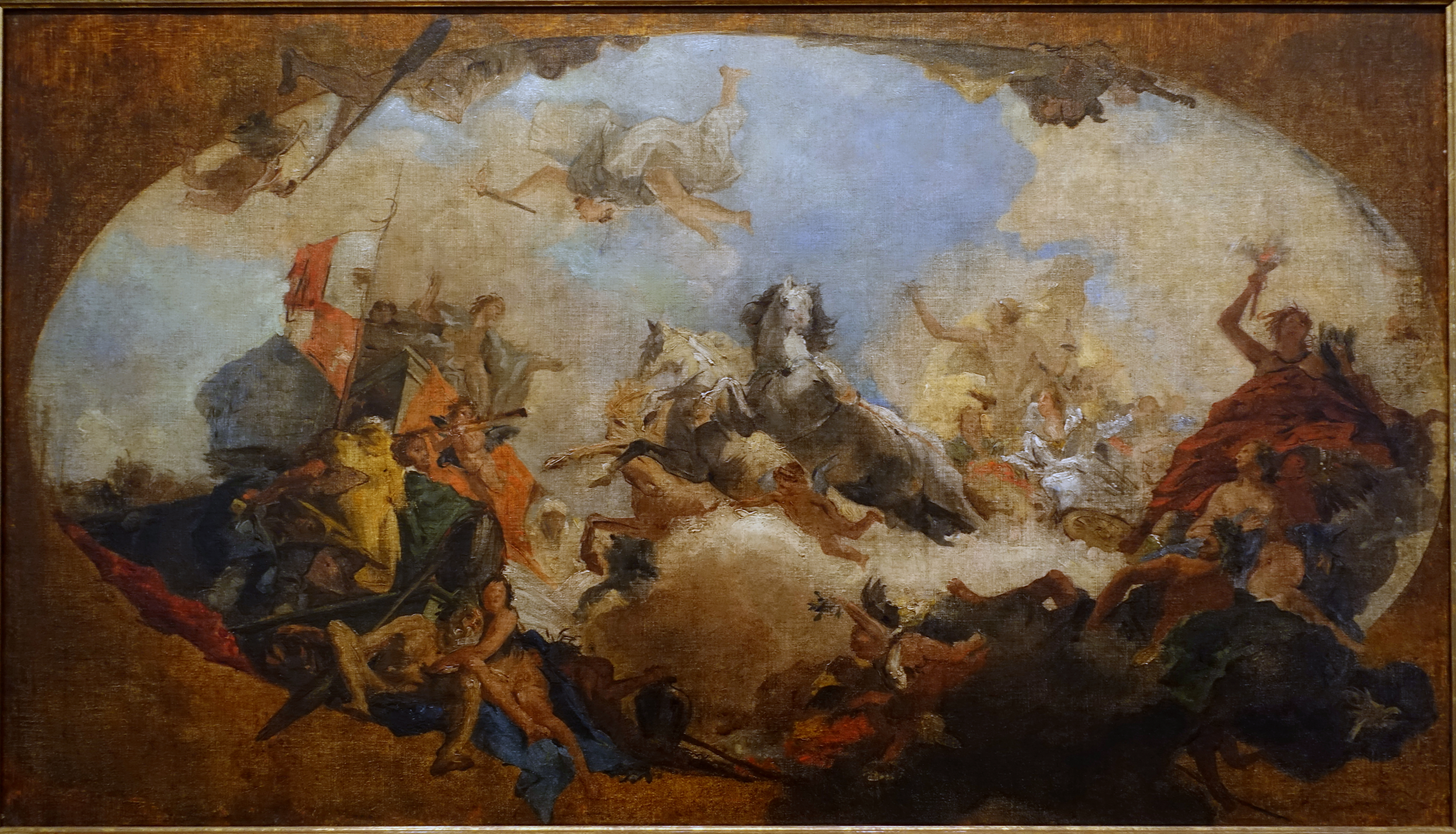 Exhibit in the Mainfränkisches Museum - Würzburg, Germany.